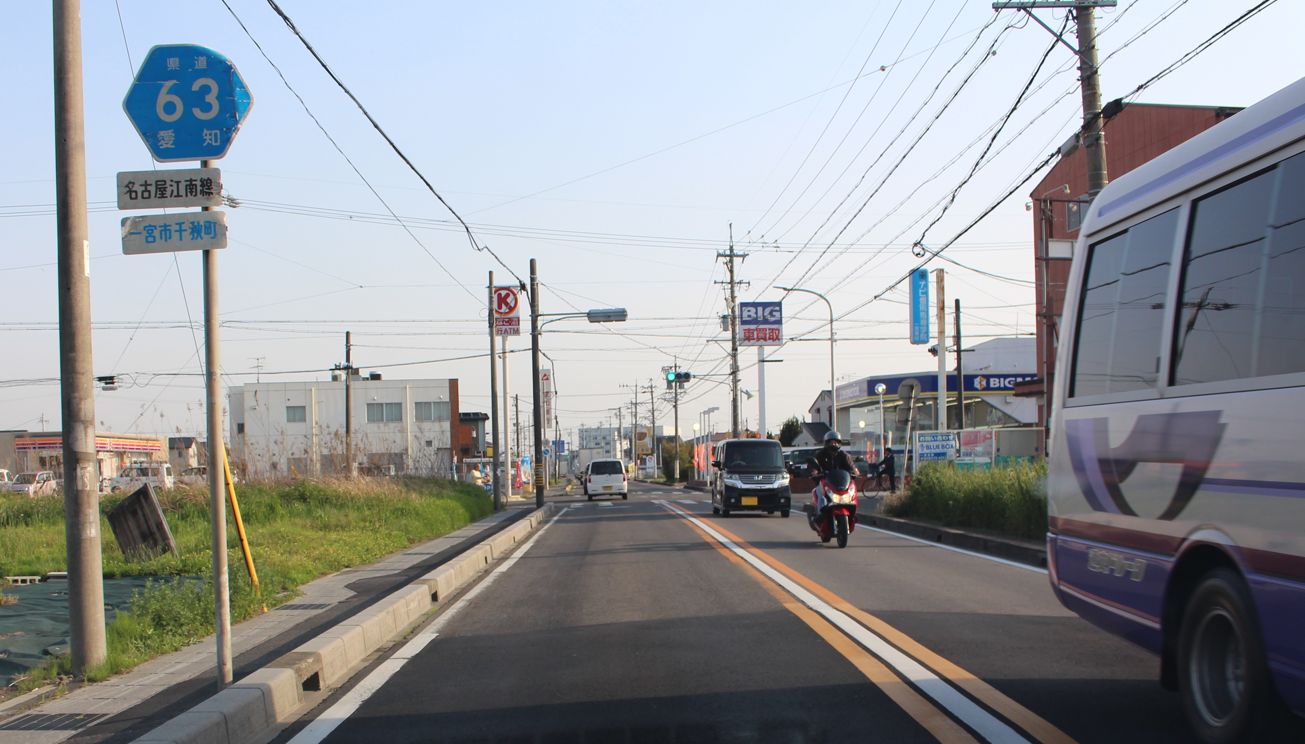 Aichi Prefectural Road Route 63 in Chiaki-chō, Ichinomiya, Aichi prefecturer, Japan.